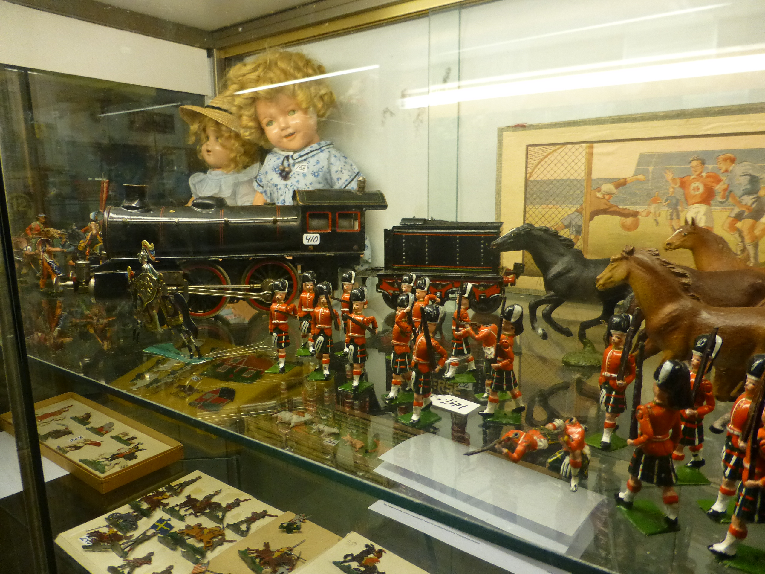 Steam locomotive and British soldiers in Leksaksmuseet (the toy museum) in Stockholm.